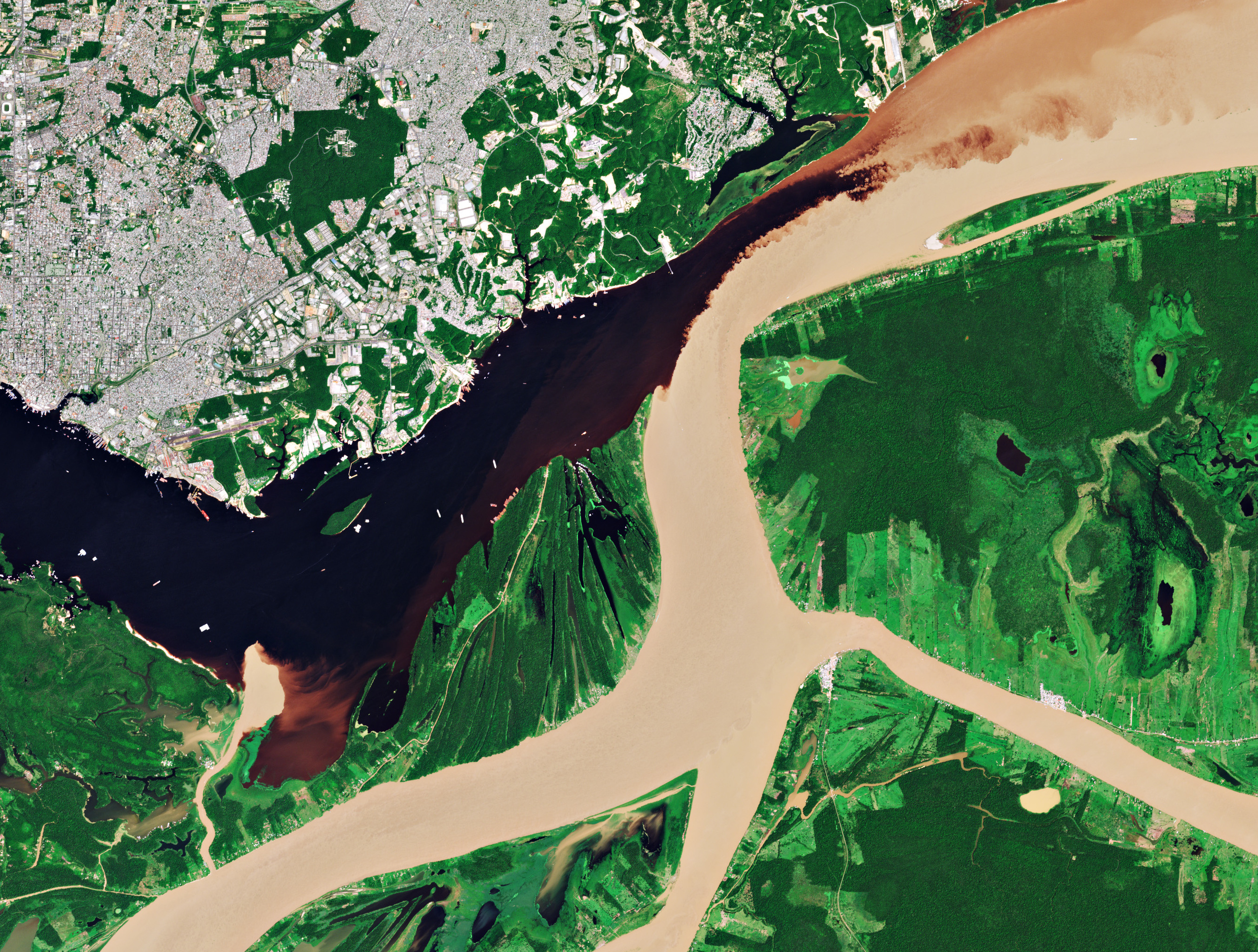 Confluence of the Rio Negro (dark) and the Solimões River (Amazon River) to the Amazon River at Manaus (Brazil). This image is captured on 7 February 2018 by Copernicus Sentinel-2, a two-satellite mission. Each satellite carries a high-resolution camera that images Earth’s surface in 13 spectral bands and can help monitor changes in land cover and inland waters. It is also featured on the Earth from Space video programme. The Rio Negro gets its dark colouring from leaf and plant matter that has decayed and dissolved in its waters. The Solimões River – visible directly below - owes its brown-colouring to its rich sediment content, including sand, mud and silt. Owing to differences in temperature, speed and water density, the two rivers, after converging, flow side-by-side for a few kilometres , before eventually mixing completely. Manaus, the largest city in the Amazon Basin, is visible on the north bank of the Rio Negro. Despite being 1500 km from the ocean, Manaus is a major inland port. The Adolfo Ducke Forest Reserve is visible northeast of the city. The almost square-shaped block of land is a protected area named after the botanist Adolfo Ducke, and is used for the research of biodiversity.